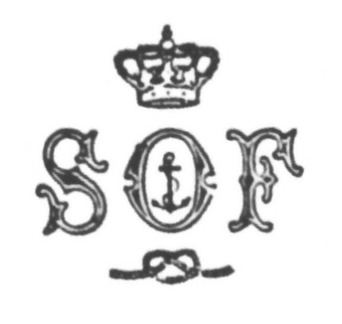 The logo of the Danish Naval Officer Association, Søofficers-Foreningen. The logo has a crown, and the use of it was authorized by the Danish Secretary of the Navy in 1883. Described in Bjerg, H. C., Samvær og Kammeratskab, 2009, page 39-40.